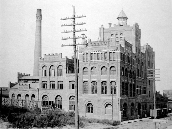 The Tennessee Brewery in downtown Memphis. This picture had to be taken prior to 1909, when the Orgill building was built at 505 Tennessee Street, which is the lot on the left side of this photo. Later information: The original picture is dated 1895, and a copy of it is available from the Memphis/Shelby County Public Library and Information Center.